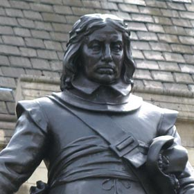 The statue of Oliver Cromwell, erected just outside the House of Commons of the United Kingdom in Westminster, London.